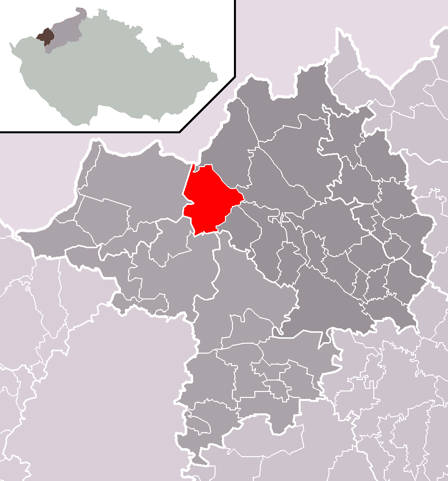 Location of Výsluní town within Chomutov District and administrative area of Chomutov as a Municipality with Extended Competence.